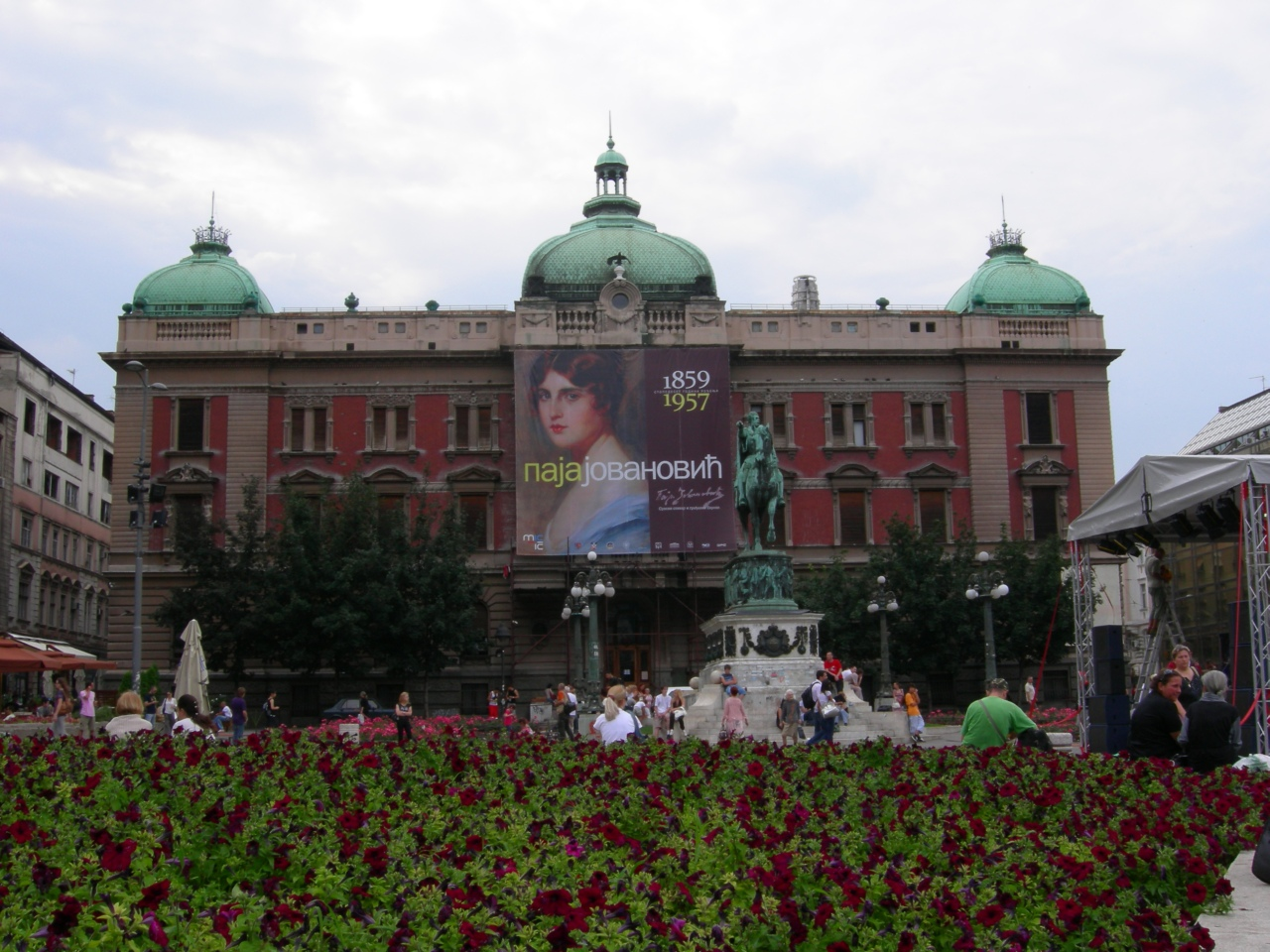 Building of Narodni muzej (National museum) in Belgrade.